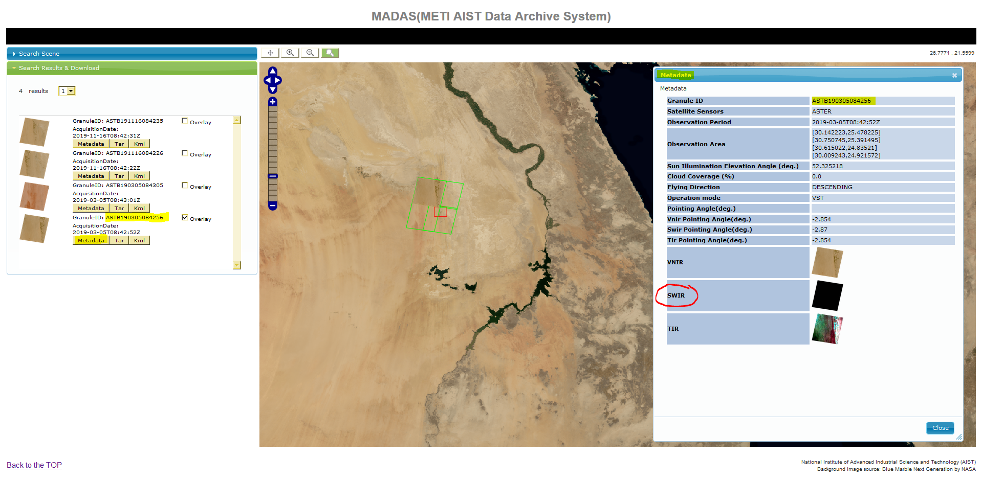 Modified screenshot of the data browser and map viewer of the MADAS (METI AIST Data Archive System) website run by the Japanese Ministry of Economy, Trade, and Industry (METI) and the Japanese National Institute of Advanced Industrial Science and Technology (AIST). The screenshot shows an opened window (right) with metadata of the ASTER granule ASTB190305084256 (‘Overlay’ checked on the left; see also yellow highlighting) which comprises multispectral satellite images of the Egyptian desert (cf. map window). Note the black preview thumb in the SWIR row (the SWIR subsystem of ASTER is non-functional since 2008). The data (GeoTIFF) could be downloaded by clicking on the ‘Tar’ button.